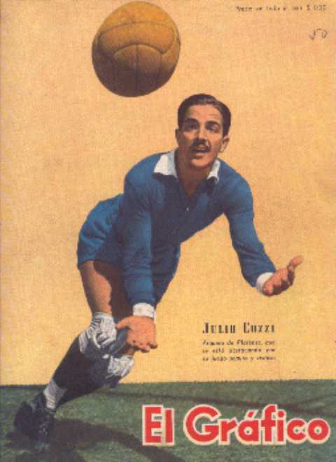 Julio Cozzi, Platense goalkeper on the cover of El Gráfico magazine in 1944